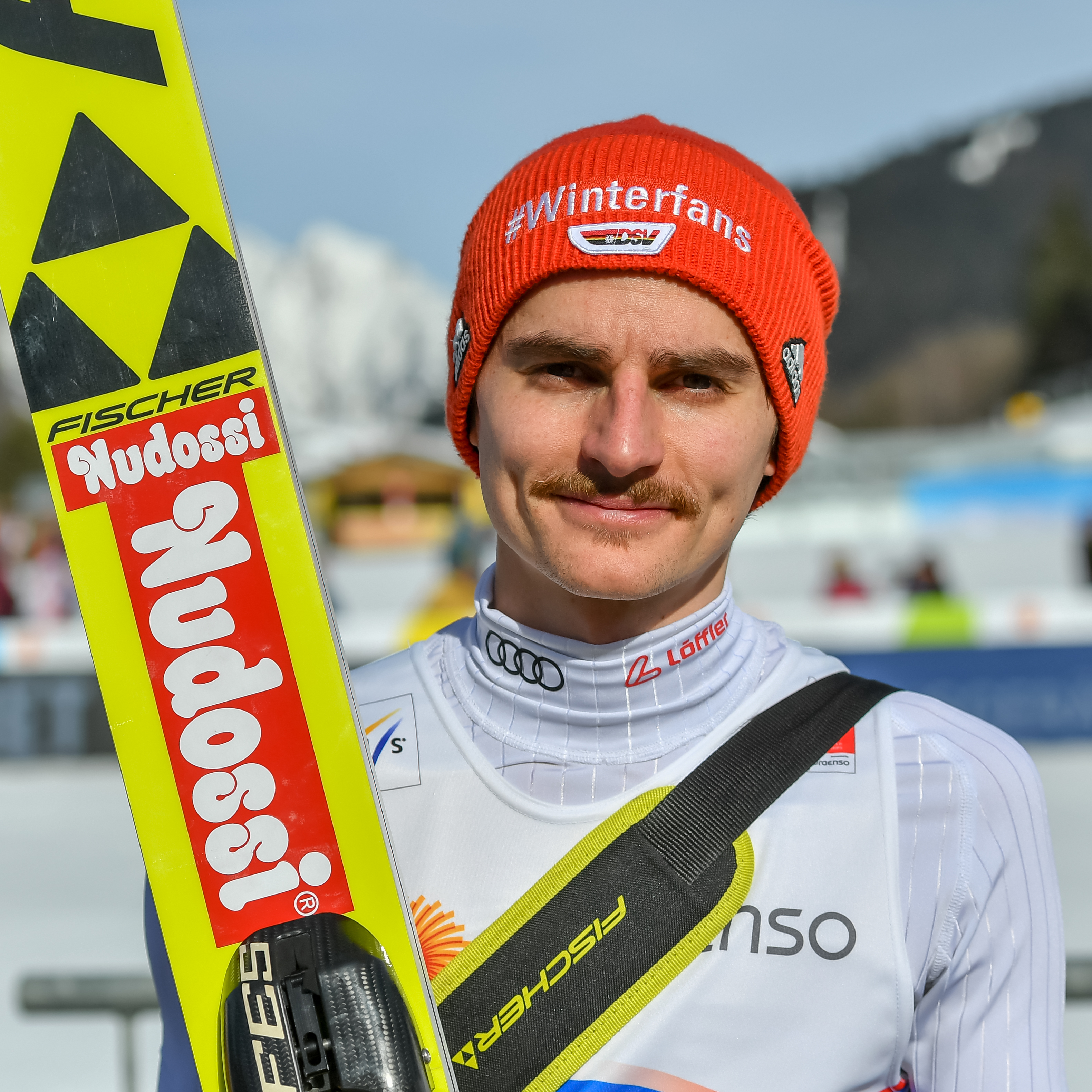 Seefeld, February 26, 2019: FIS Nordic World Ski Championships, Ski Jumping Training Men.